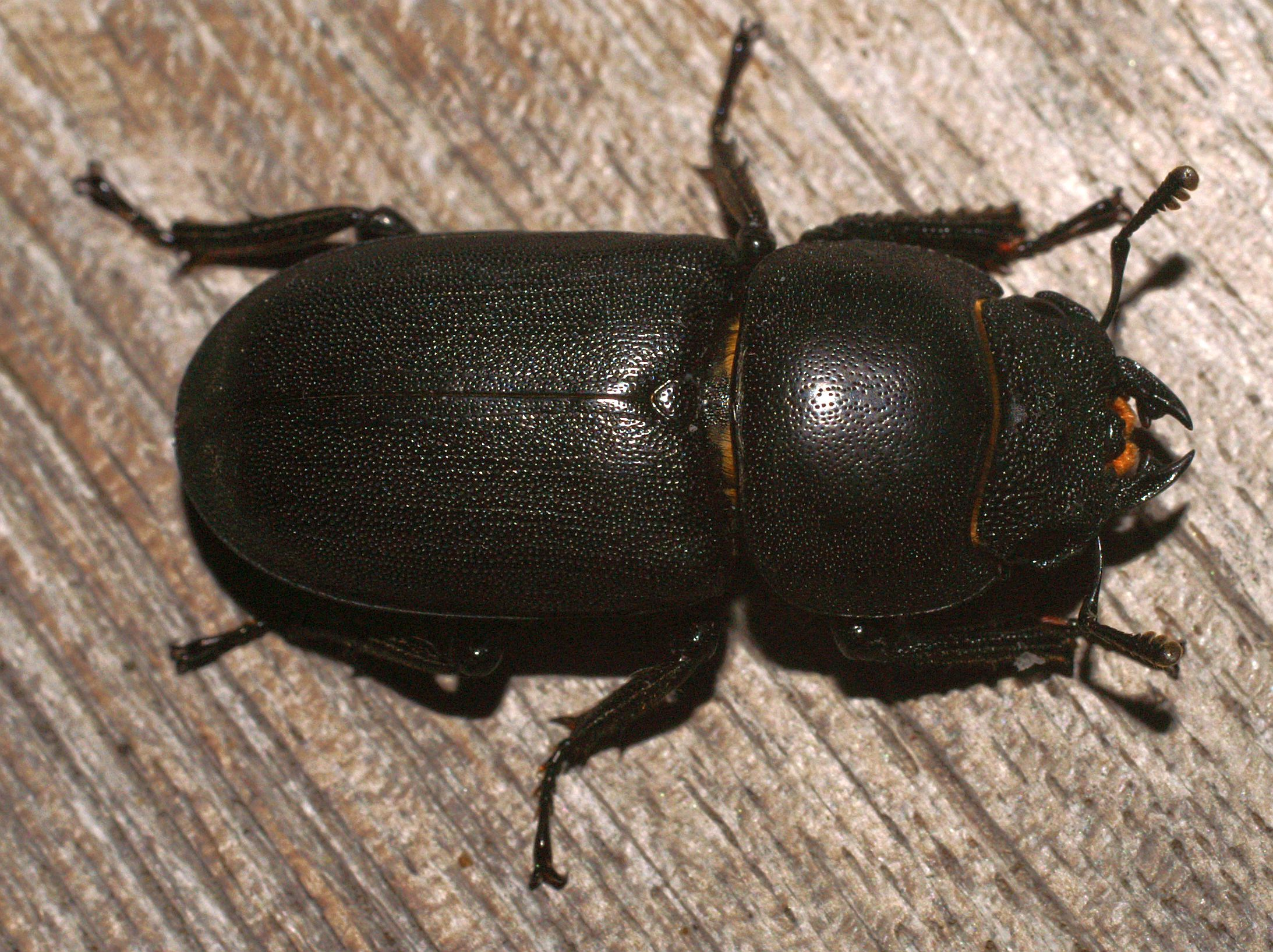 Dorcus parallelipipedus. Picture taken in Skåne, Sweden.